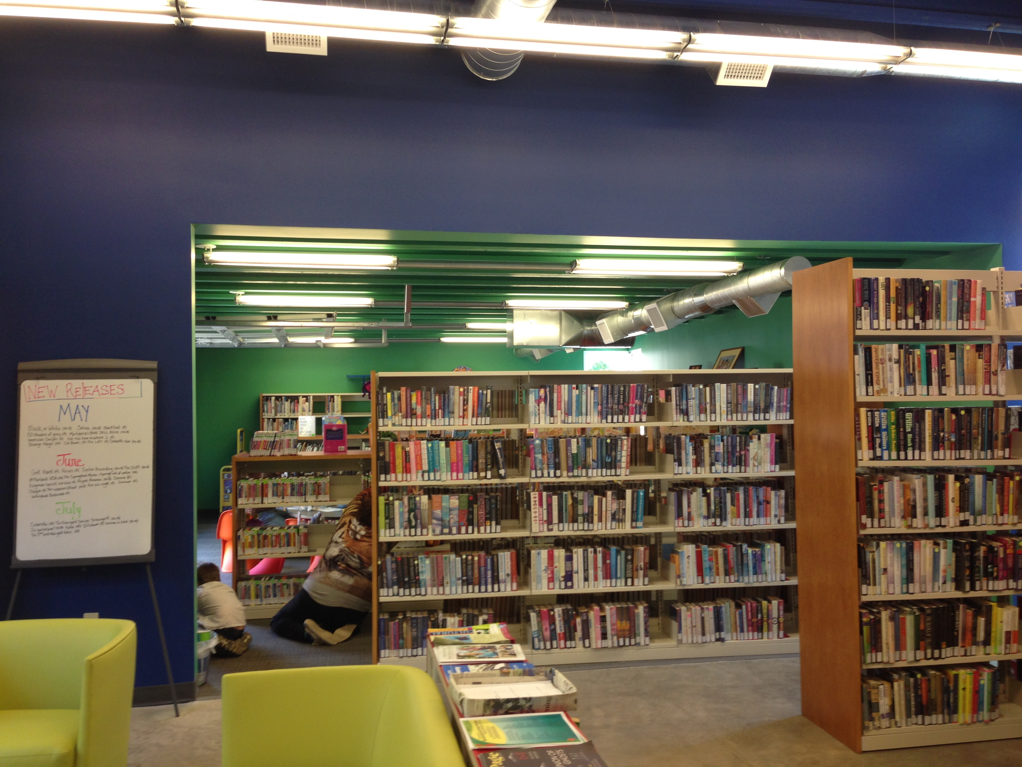 Sharpsburg Community Library.